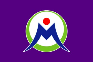 Flag of Minobu Yananashi